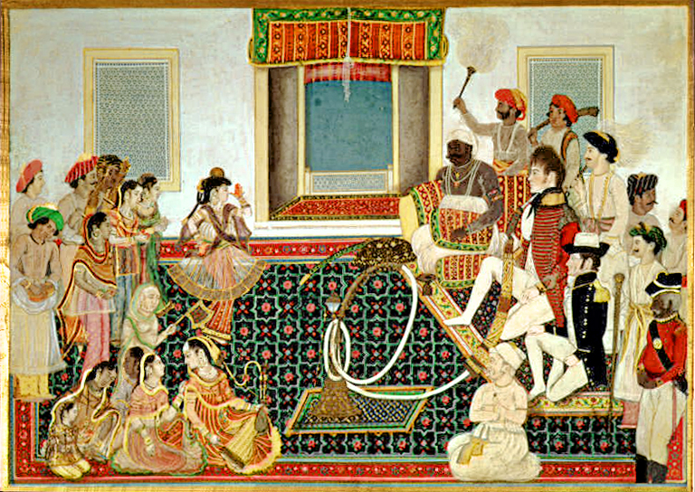 Prince Mahadji Scindia (1761-94) entertaining two British officers (Military and Navy) with a Nautch (The Nautch (/ˈnɔːtʃ/) is one of traditional dances in India, performed by professional dancing girls); Gouache on paper, ca. 1820.